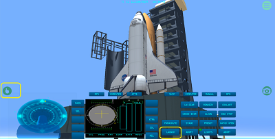 Space Simulator Shuttle Quick Launch Guide